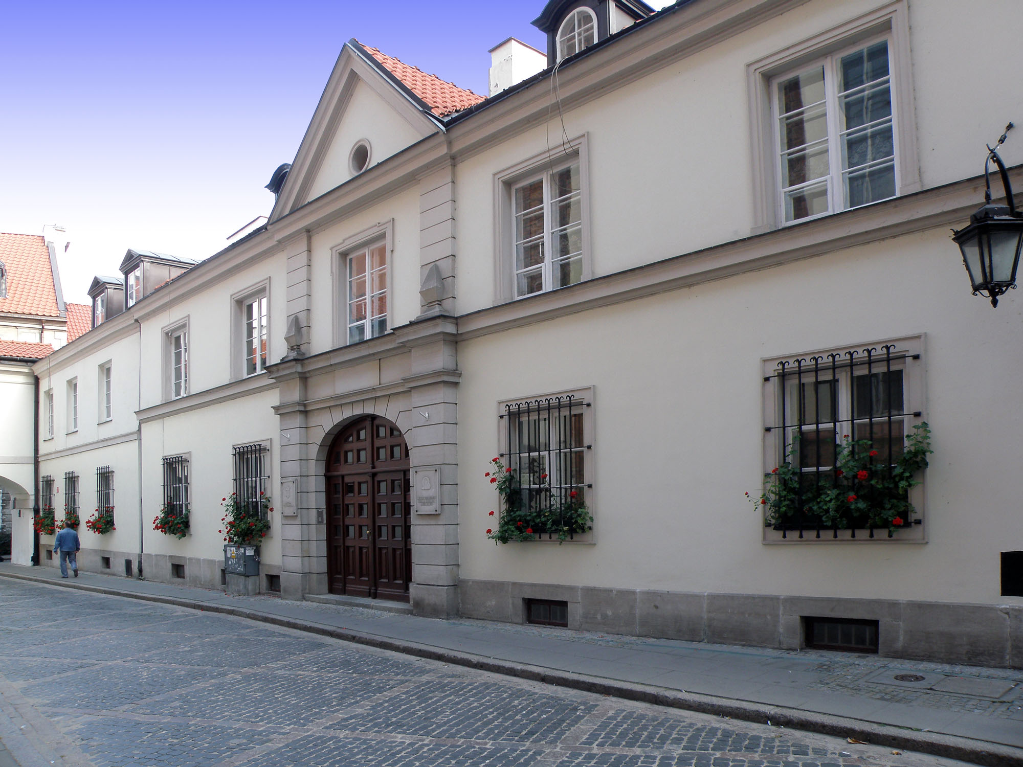 Poland, Dziekania Street in Warsaw